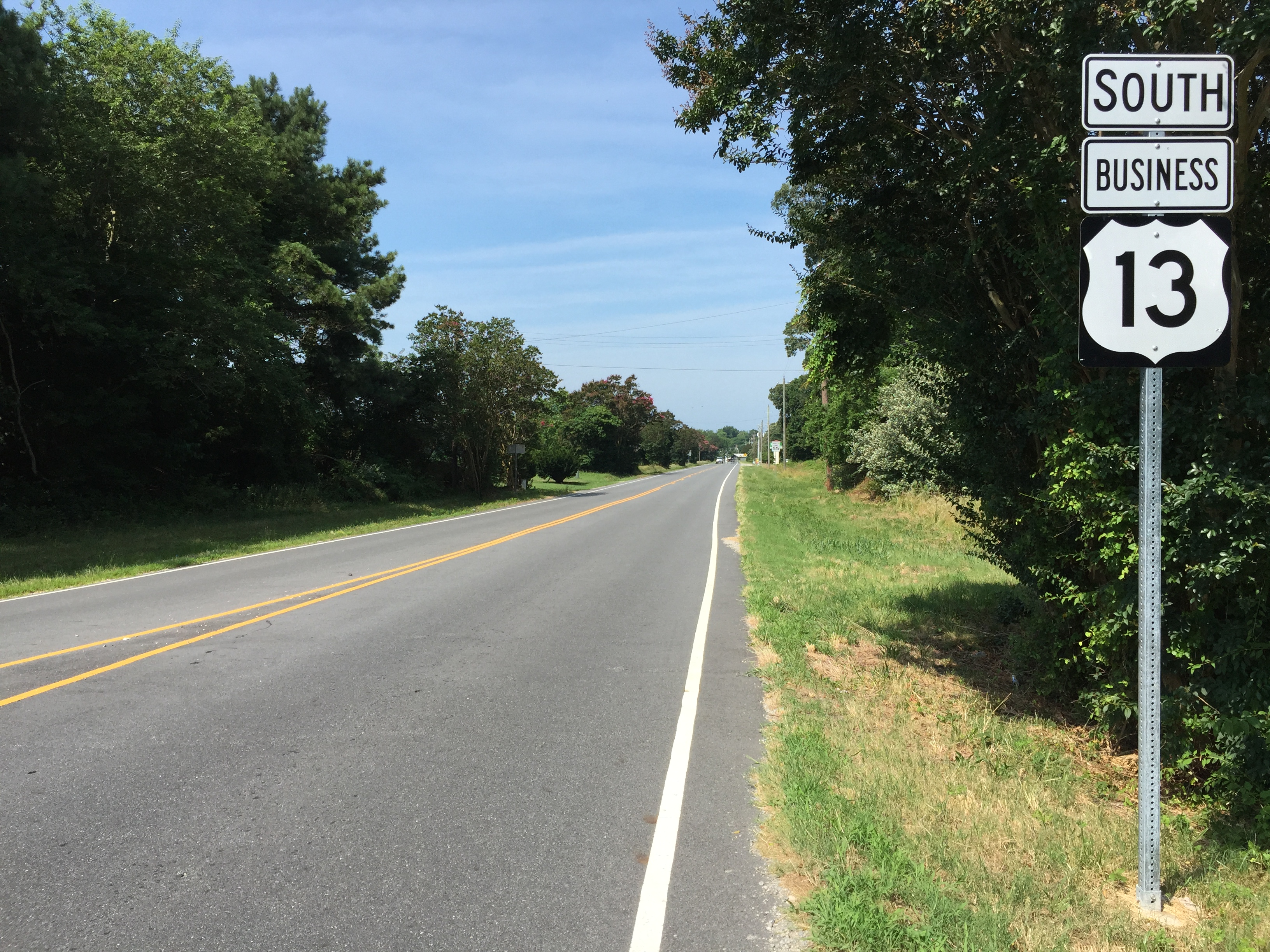 View south along U.S. Route 13 Business (Courthouse Road) at U.S. Route 13 (Lankford Highway) in James Crossroads, Northampton County, Virginia